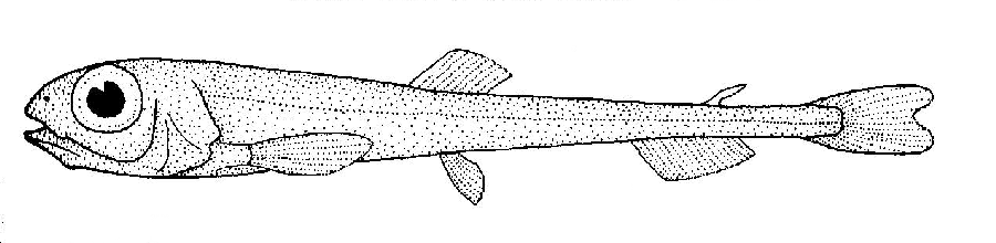 Bathylagus antarcticus (no common name)